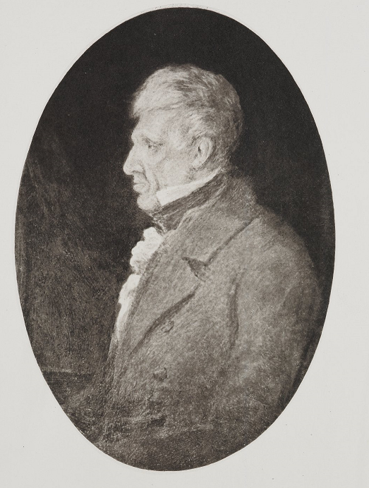 Geologist and psychical researcher Samuel Hibbert-Ware.